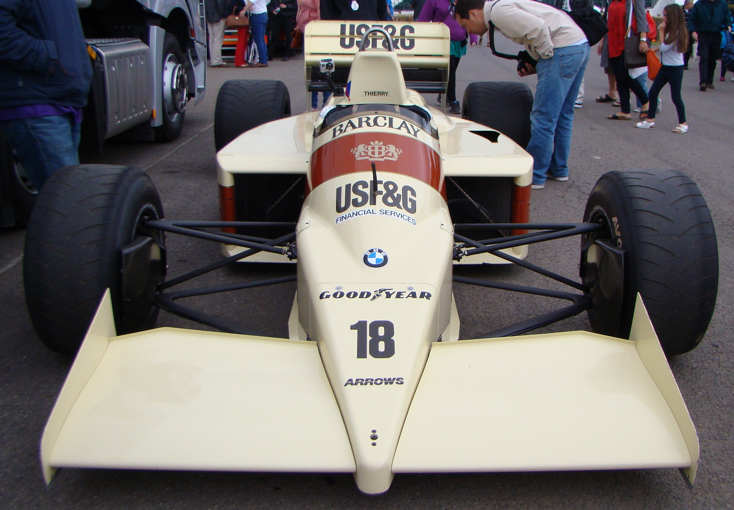 Photo of the Arrows A9 F1 car, taken at the Goodwood Festival of Speed 1st July 2012